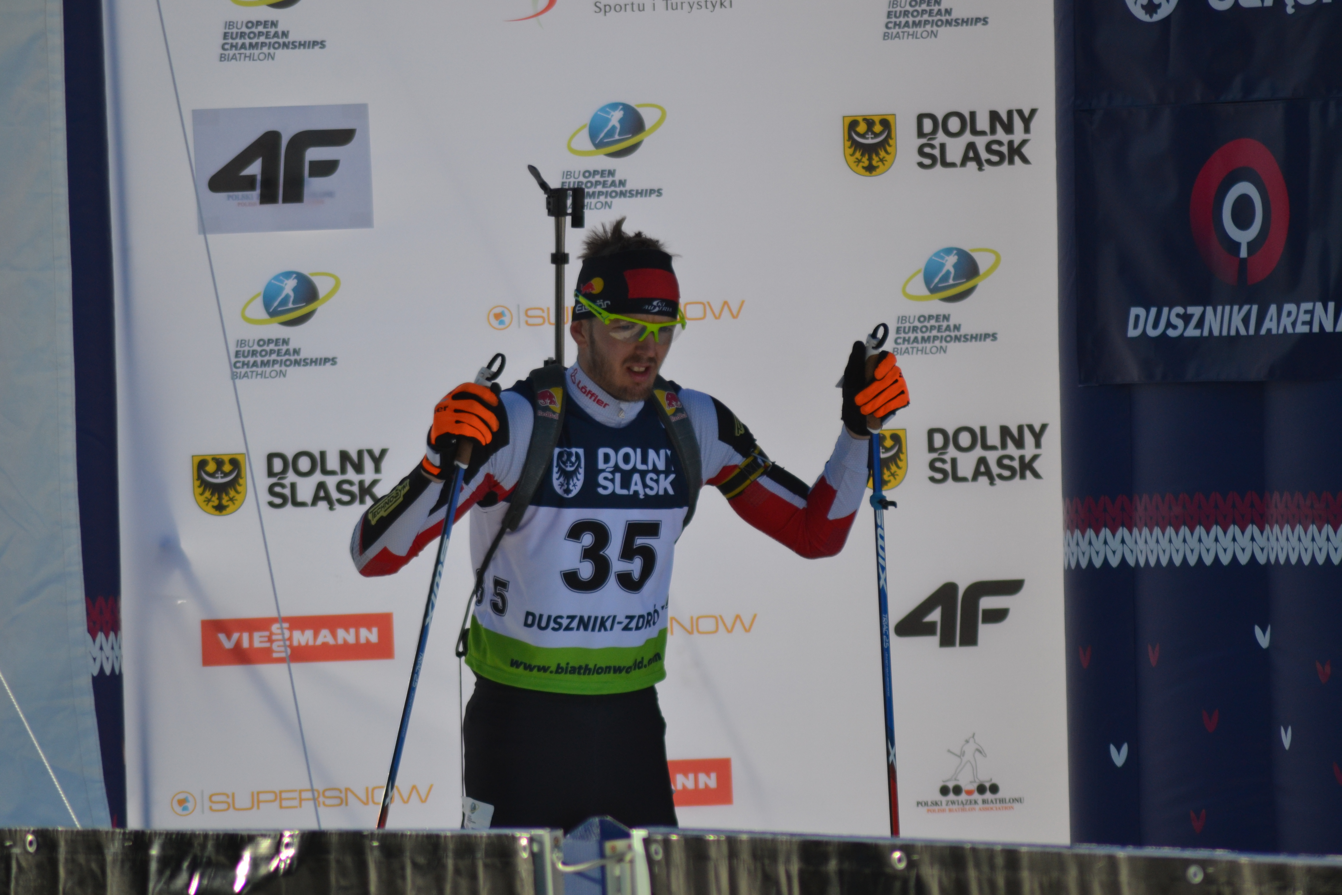 Open European Championships Biathlon 2017, Sprint Men's race, held on January 27th.